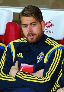 Kristoffer Nordfeldt